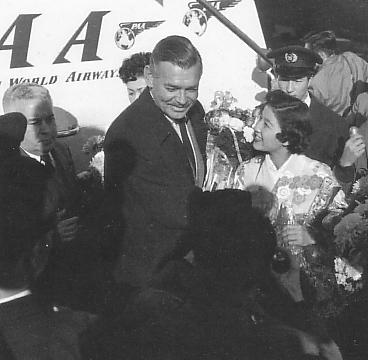 Clark Gable in 1954